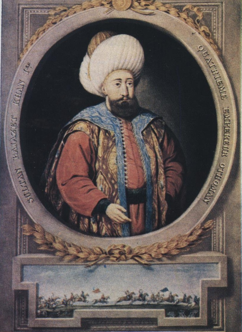 Bayezid I